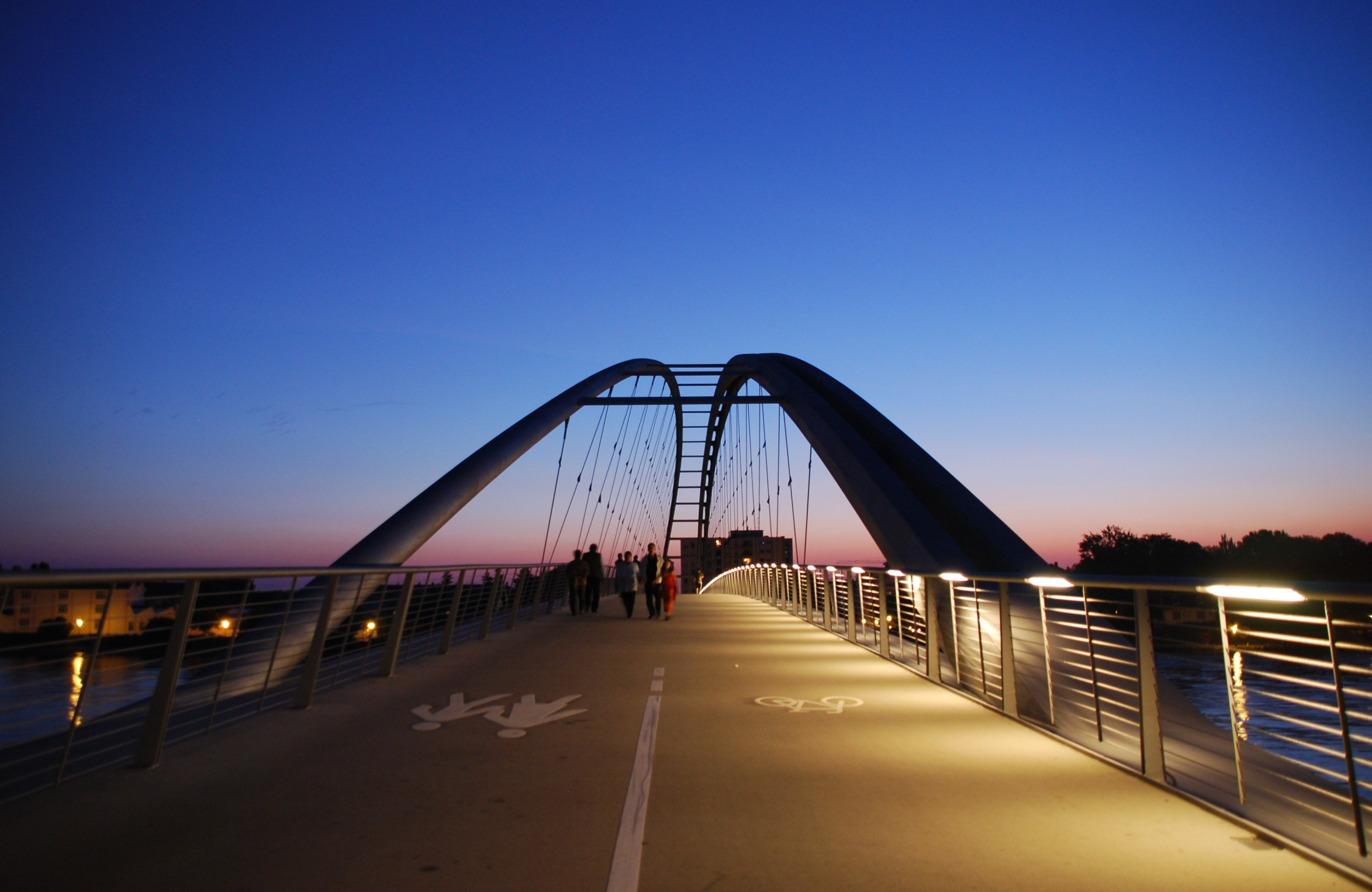 The Three Countries Bridge at night in Huningue (France) and Weil am Rhein (Germany) next to the Three Countries Country of Basel (Switzerland).